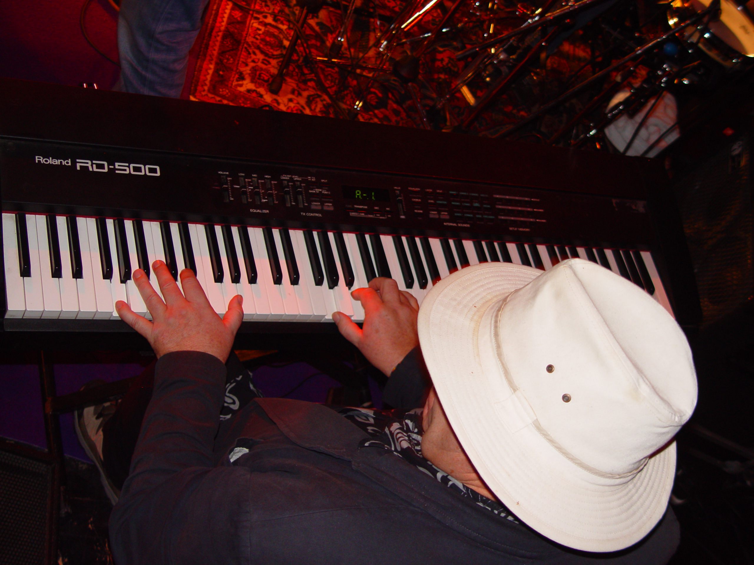 Max Middleton is touring Europe with Snowy White & The White Flames to promote the album «Live Flames. (1st 11.2007 DE Freudenburg Duccsaal)